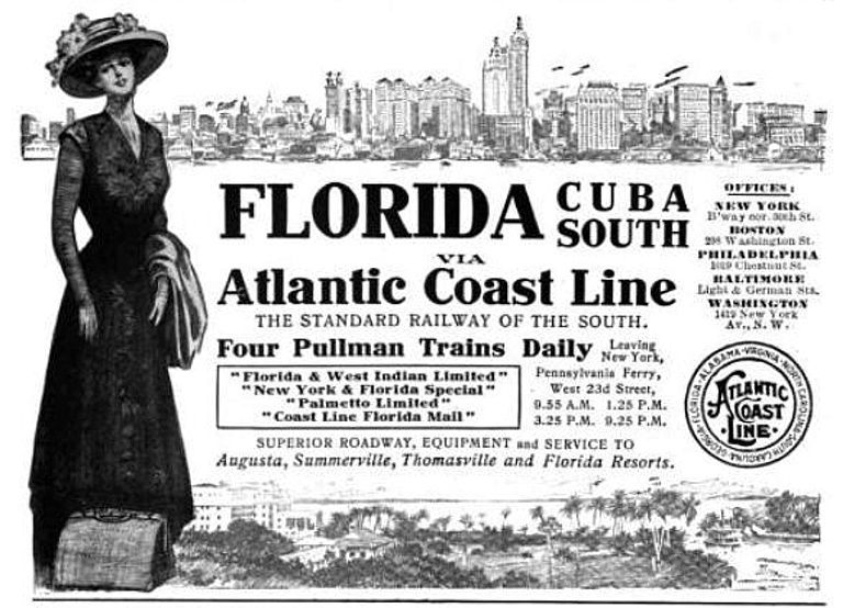 Advertisement for the Atlantic Coast Line Railroad, found in The Travel Magazine, January 1910, Vol. XV, No. 4, p. 203, at . Published by the Passenger Dept., New York Central and Hudson River Railroad. Image is in the public domain because it was first published before 1923.